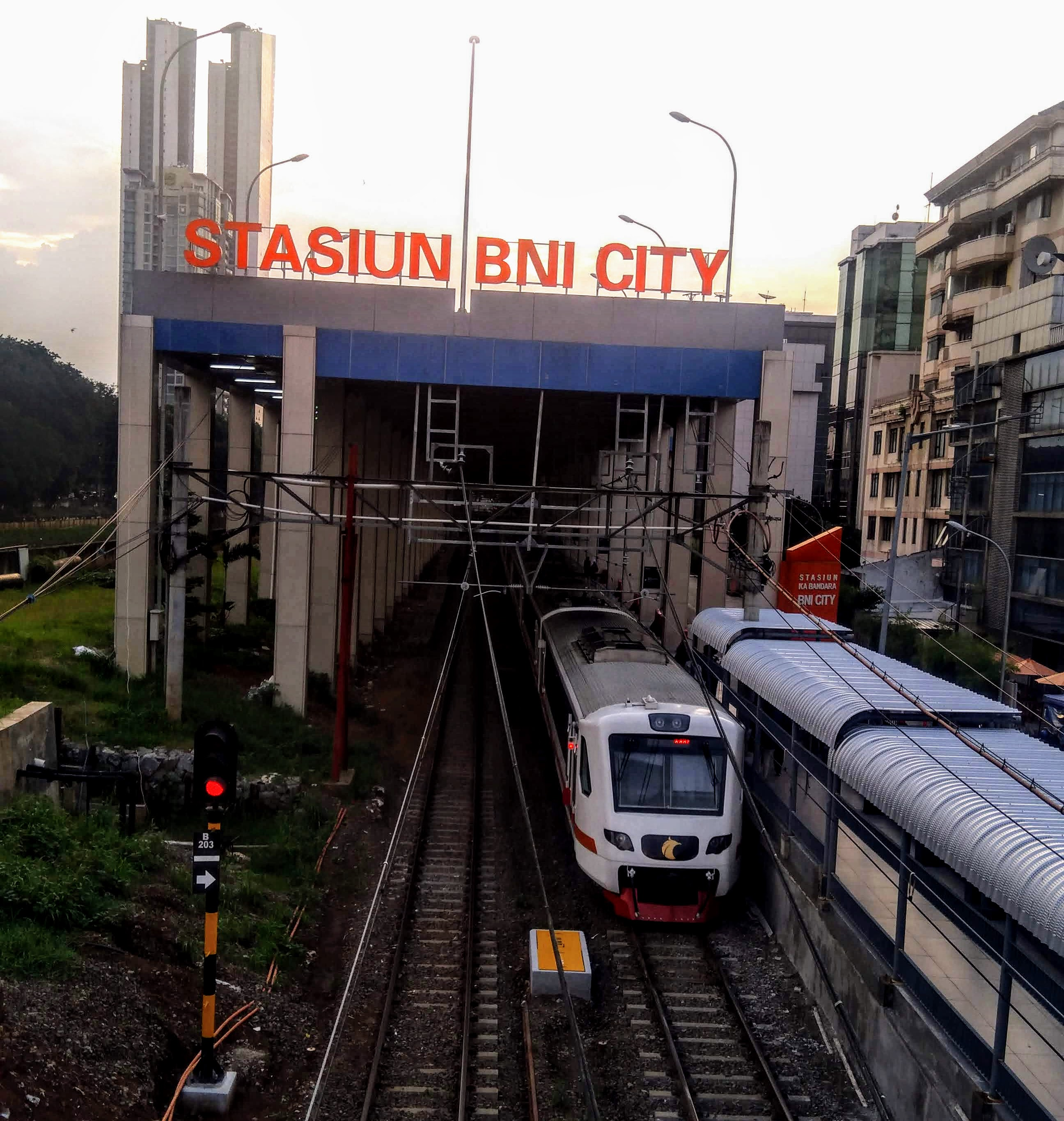 Soekarno-Hatta Airport EMU, jointly built by INKA and Bombardier arriving at BNI City/Sudirman Baru station.